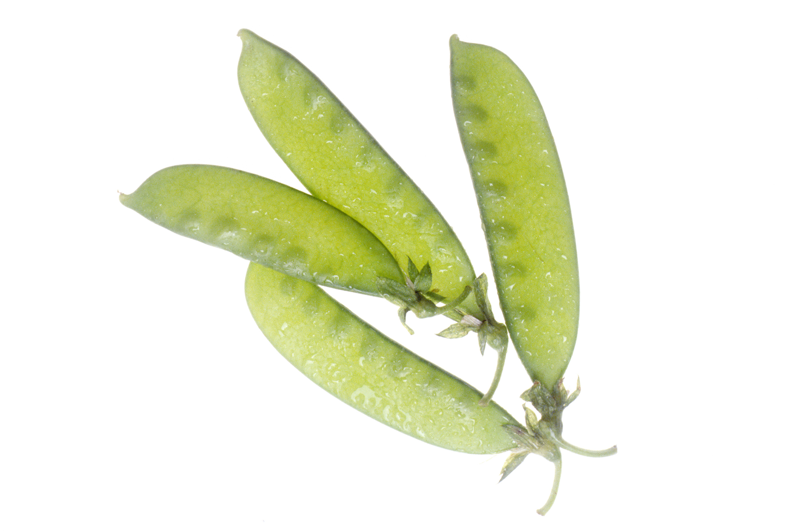 Title Snow Peas Description A group of four snow peas. Topics/Categories Food and Drink Type Color, Photo Source National Cancer Institute